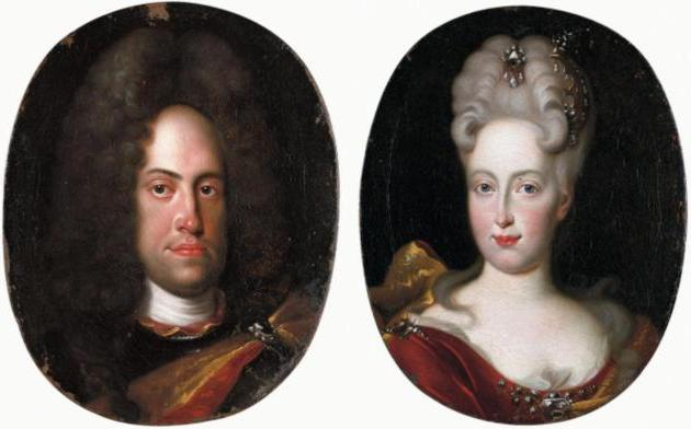 Portrait of Emperor Charles VI and his wife Elisabeth Christine of Brunswick-Wolfenbüttel